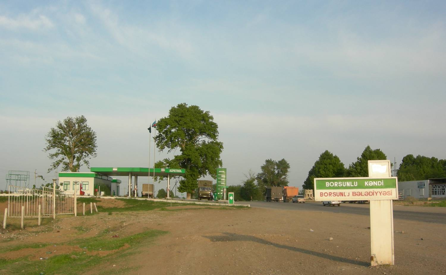 Petrol Station near Borsunlu village, M2 highway, Azerbaijan